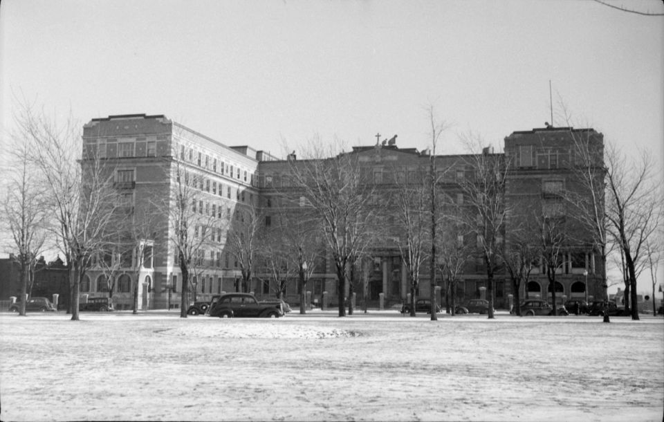 We see the building of the Notre Dame Hospital, located at 1560 Sherbrooke Street in Montreal.